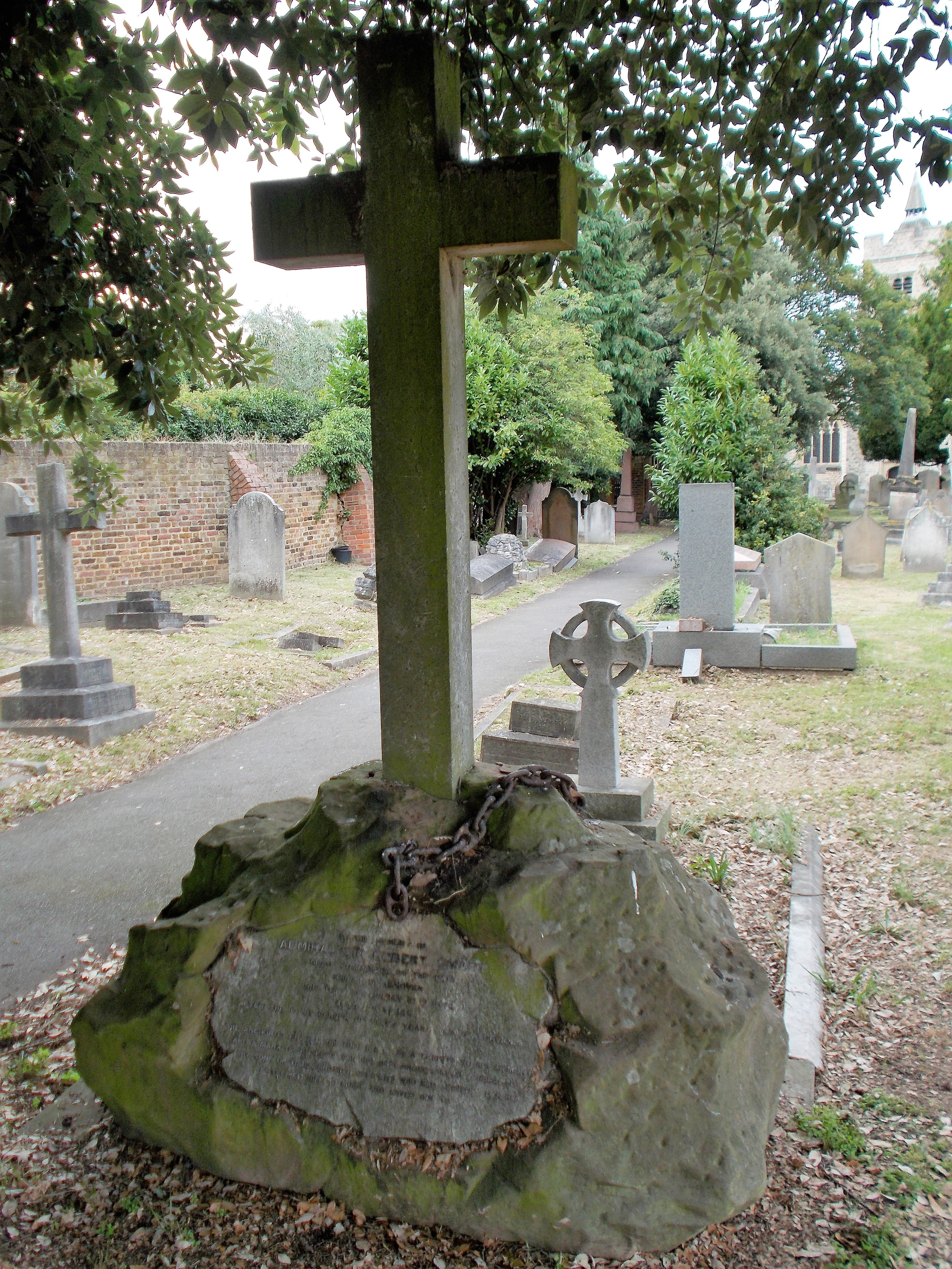 The grave is in Old Chiswick Cemetery, the writing is still readable but only just